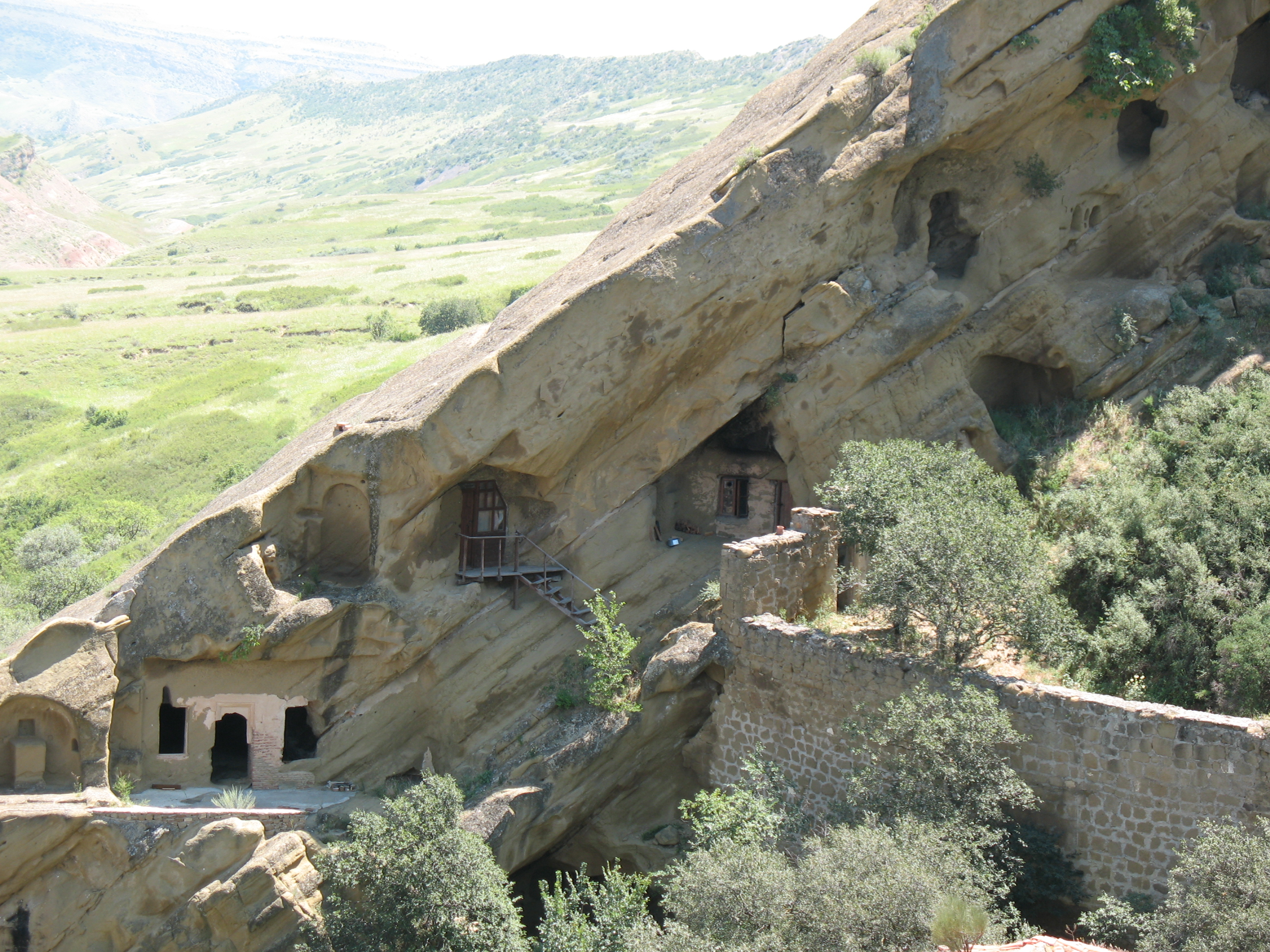 David Gareja monastery complex in the Kakheti region of Eastern Georgia.